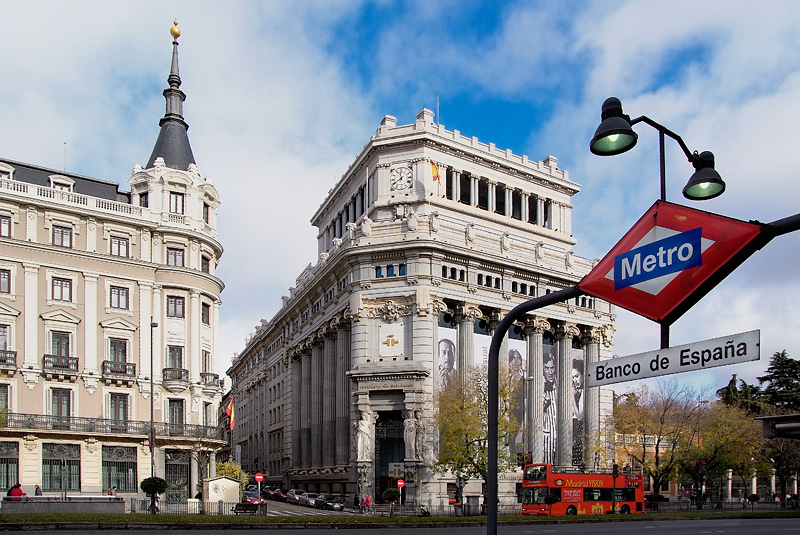 View of Calle de Alcalá (street) in Madrid (Spain). Right: Banco de España Metro station. Background: Río de la Plata Bank building.